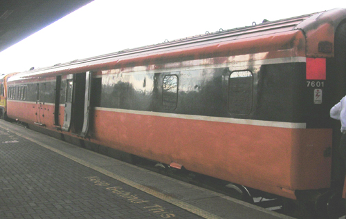 IÉ BR Mark 3 generator van 7601